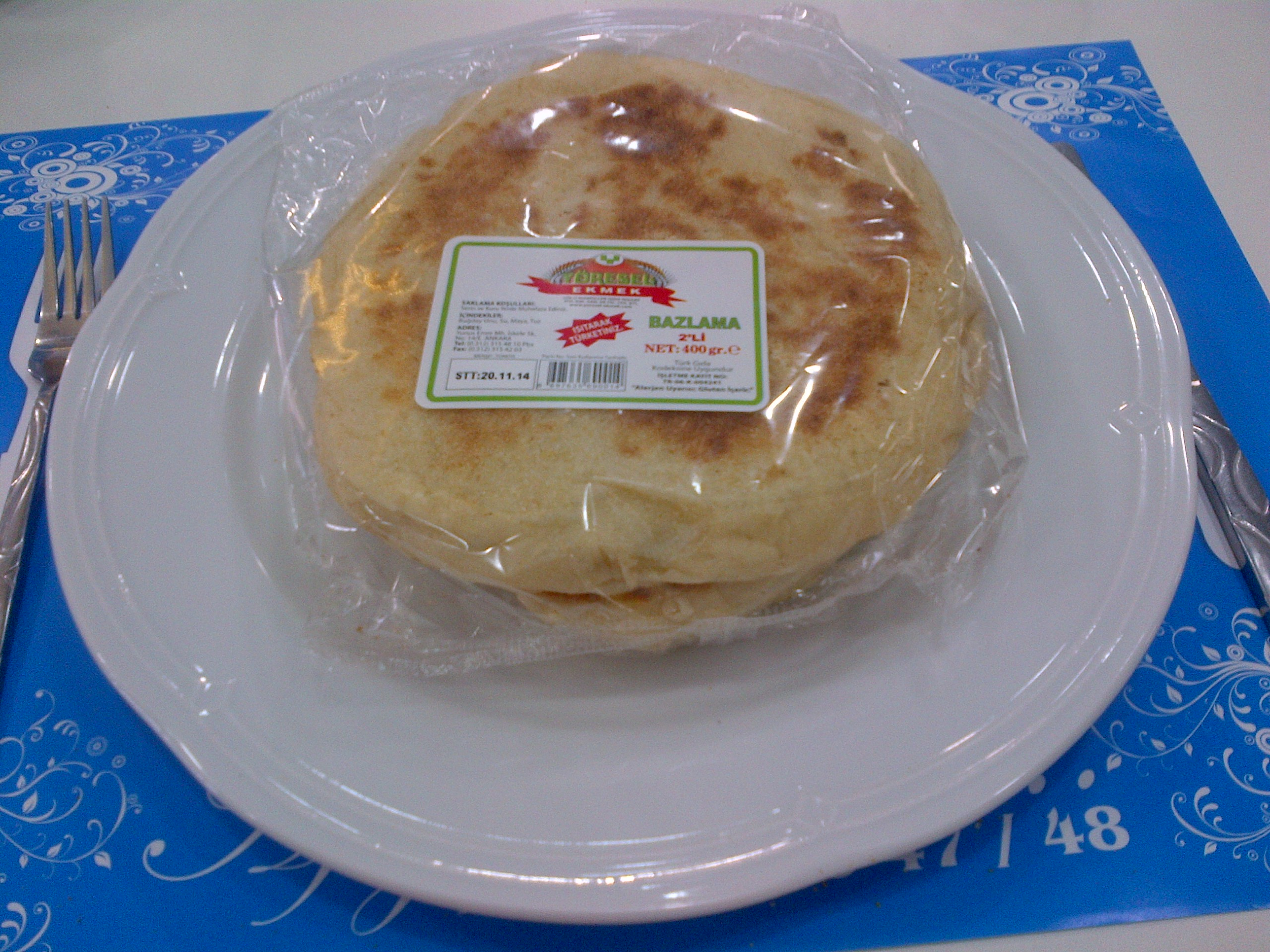 A couple of Turkish flatbread "bazlama" in hygenic nylon packing.